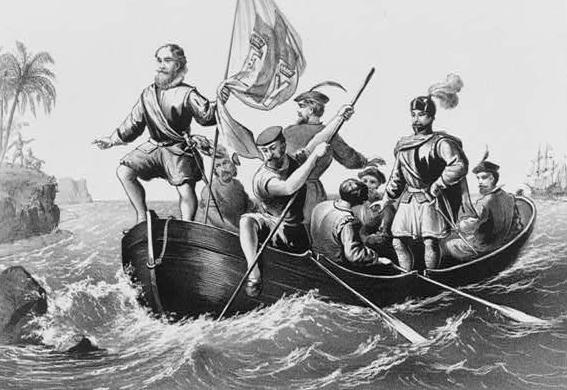 The Landing of Columbus at San Salvador, October 12, 1492.